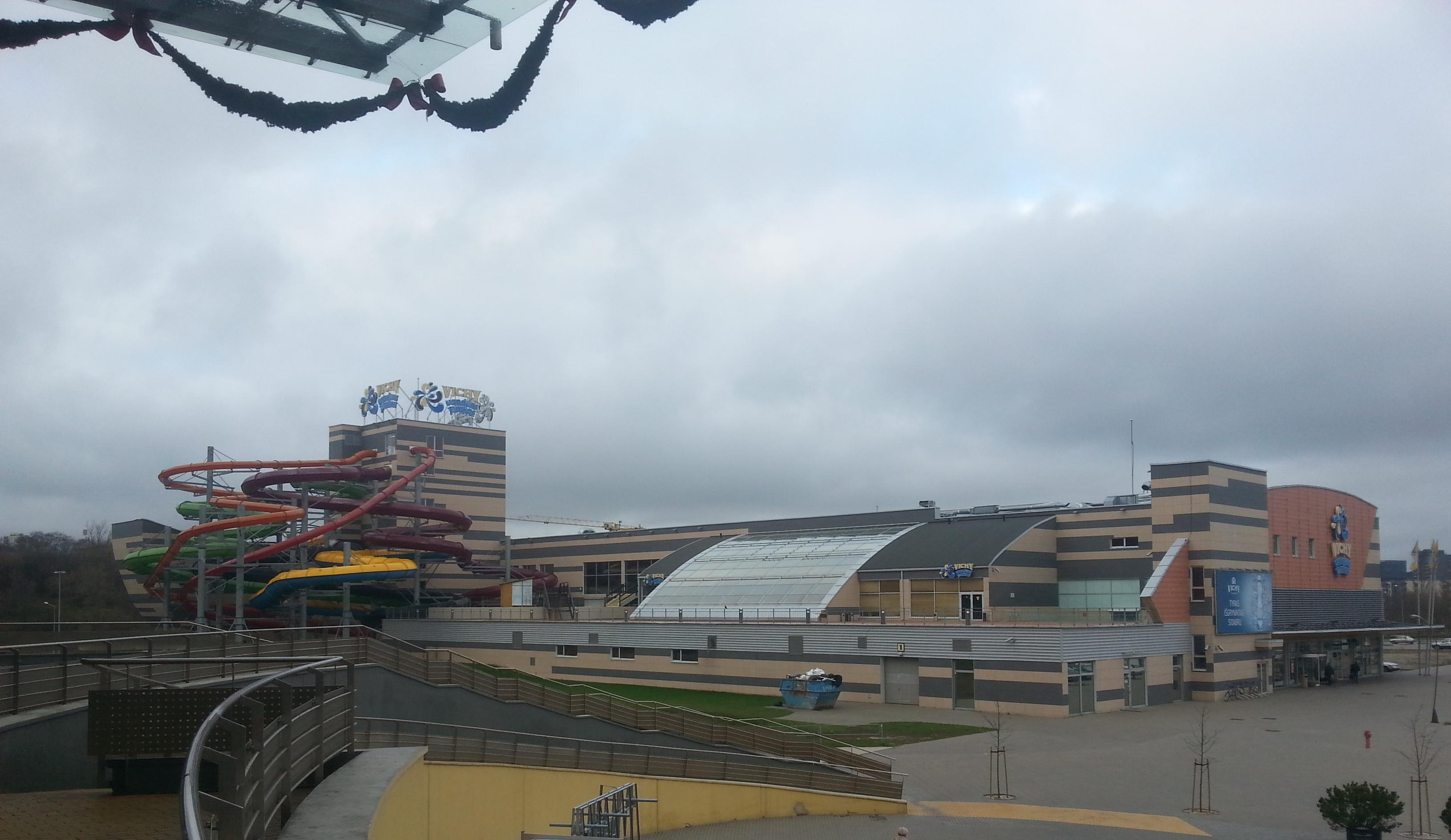 Photo of Vichy Water Park in Vilnius.